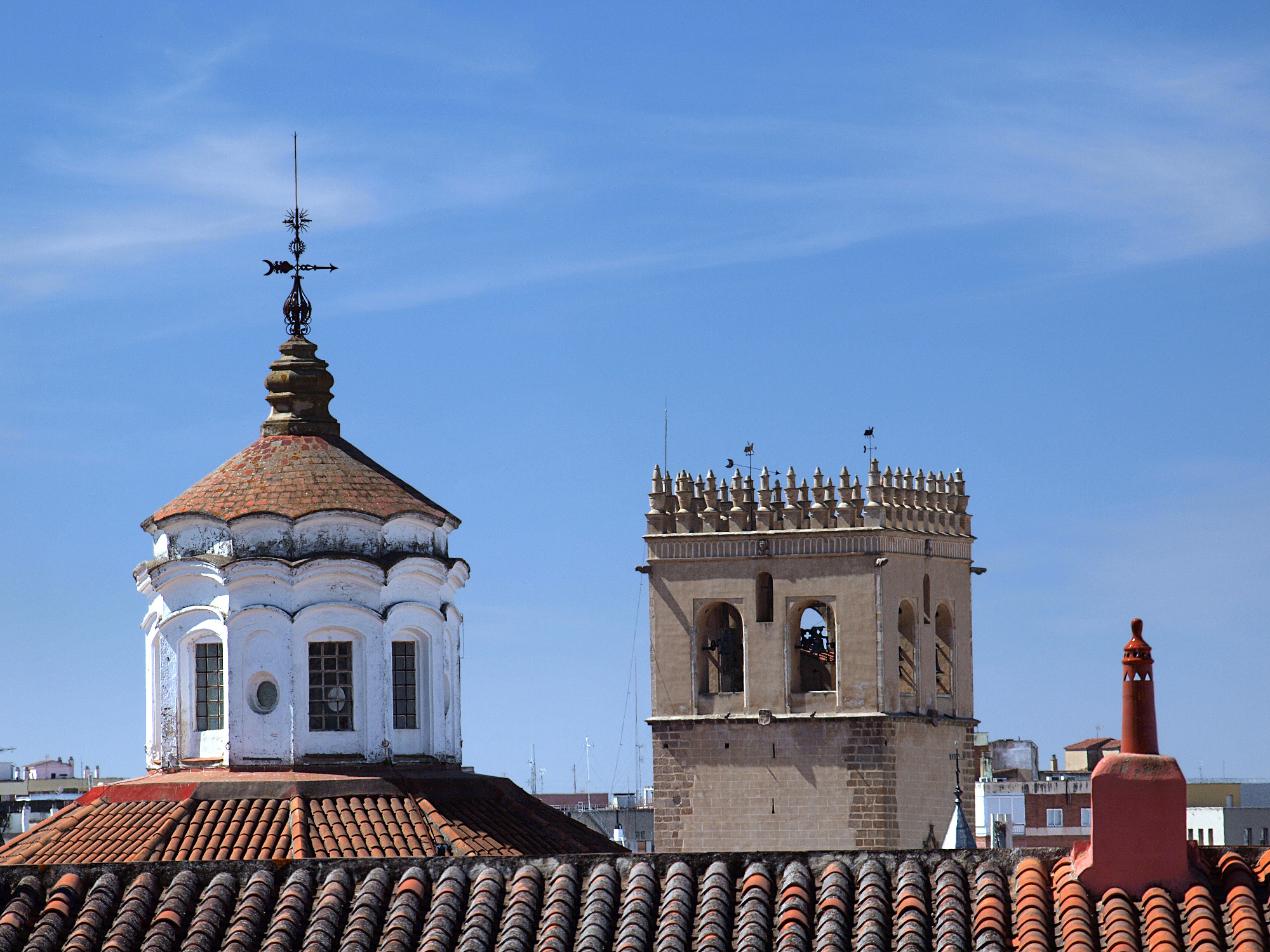 Badajoz, Top of Concepcion Church and Cathedral viewed from the Alcazaba